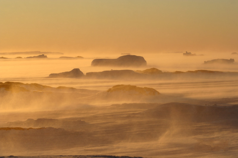 Catabatic Wind.